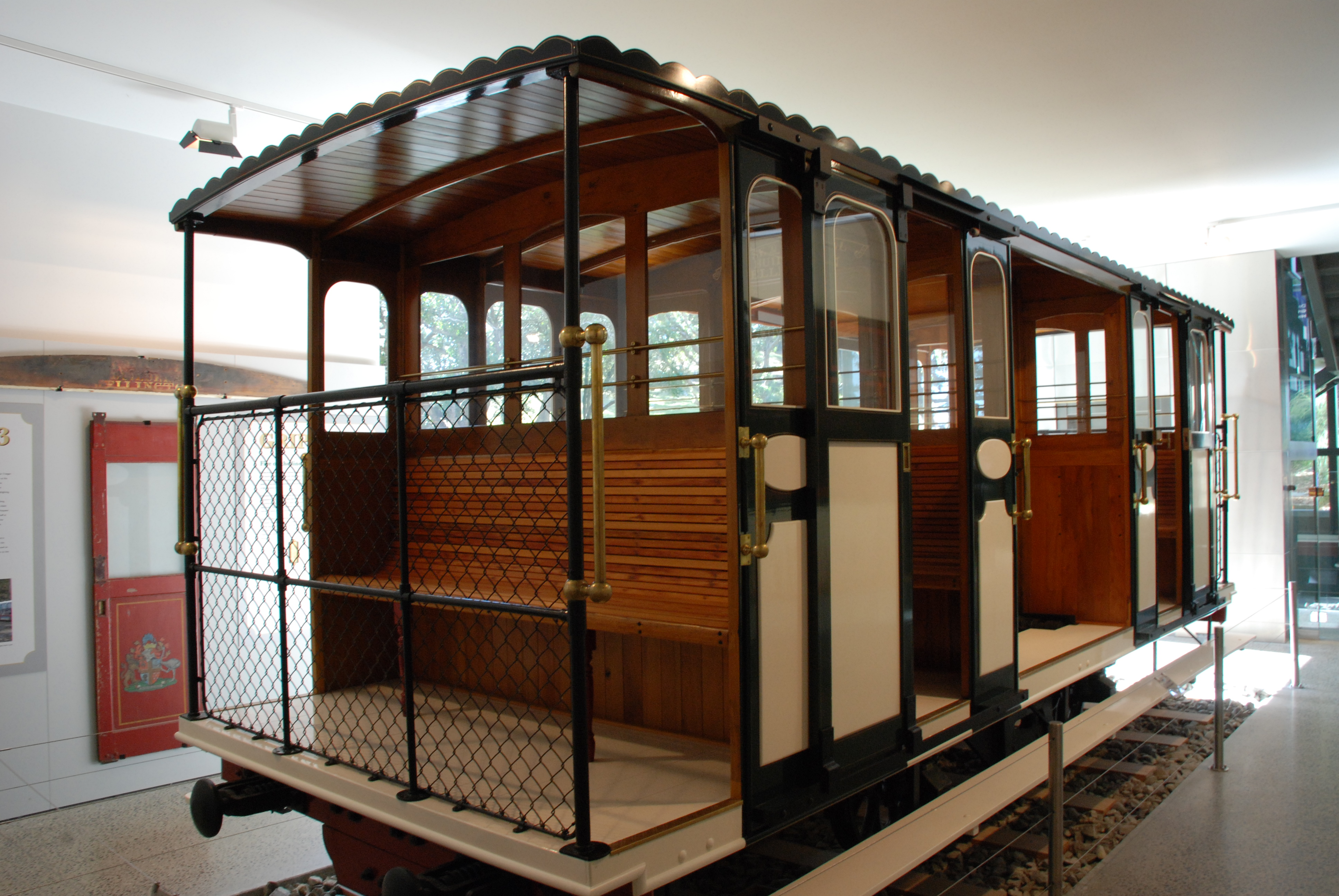 An original Kelburn Cable Car (Car 3) on display at the Kelburn Cable Car museum